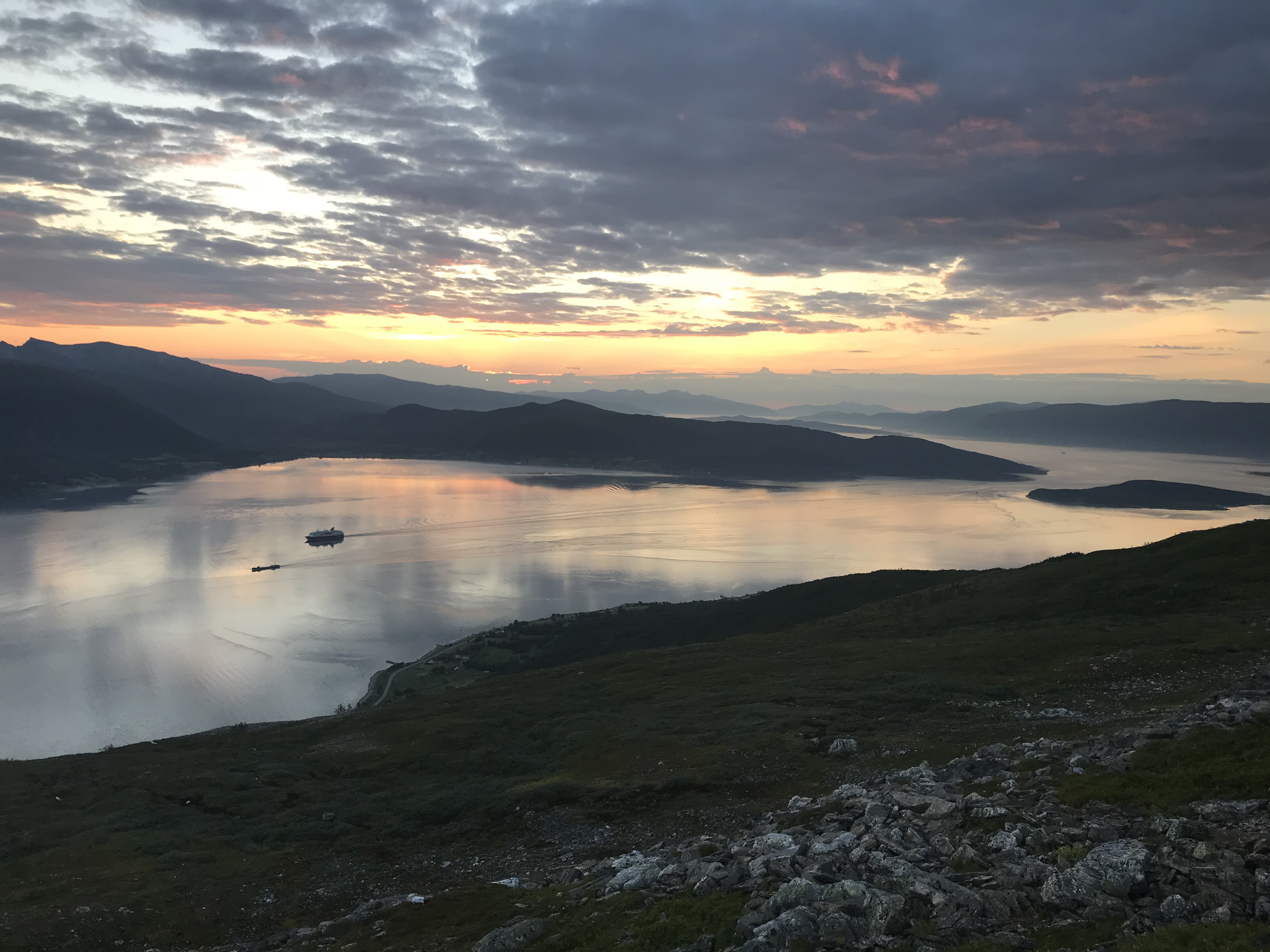 Straumsfjorden south of Tromsø, in Troms county (Norway). The islands Kvaløya to the left, the small island of Ryøy to the right. Hurtigruten (Norwegian Coastal Express) ship on its journey south